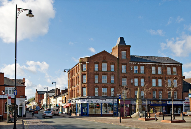 Elliot Street, Tyldesley, Greater Manchester, England.